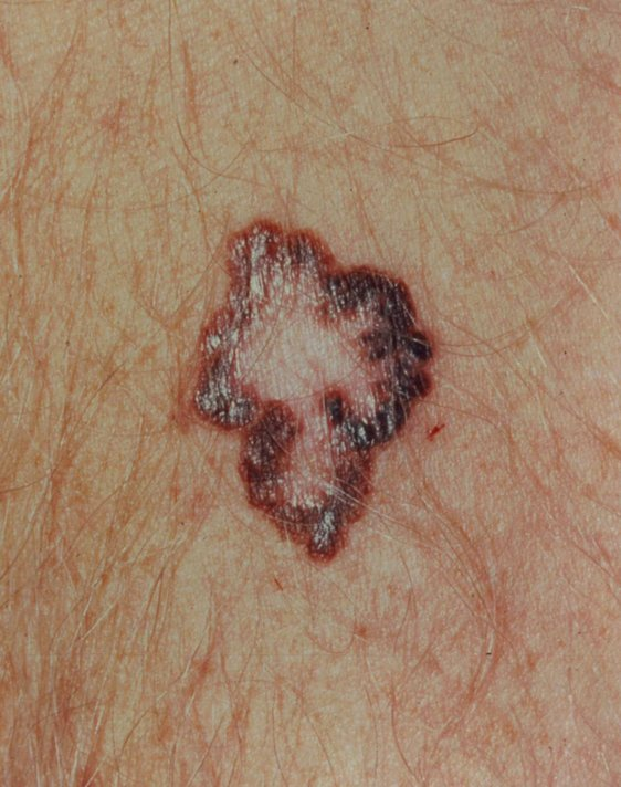 Title Melanoma, Brown Lesion Description A brown lesion with a large and irregular border on the skin. Melanoma with characteristic asymmetry, border irregularity, color variation, and large diameter. Topics/Categories Anatomy -- Skin Cancer Types -- Melanoma Cancer Types -- Skin Cancer Cells or Tissue -- Abnormal Cells or Tissue Type Color, Photo Source National Cancer Institute